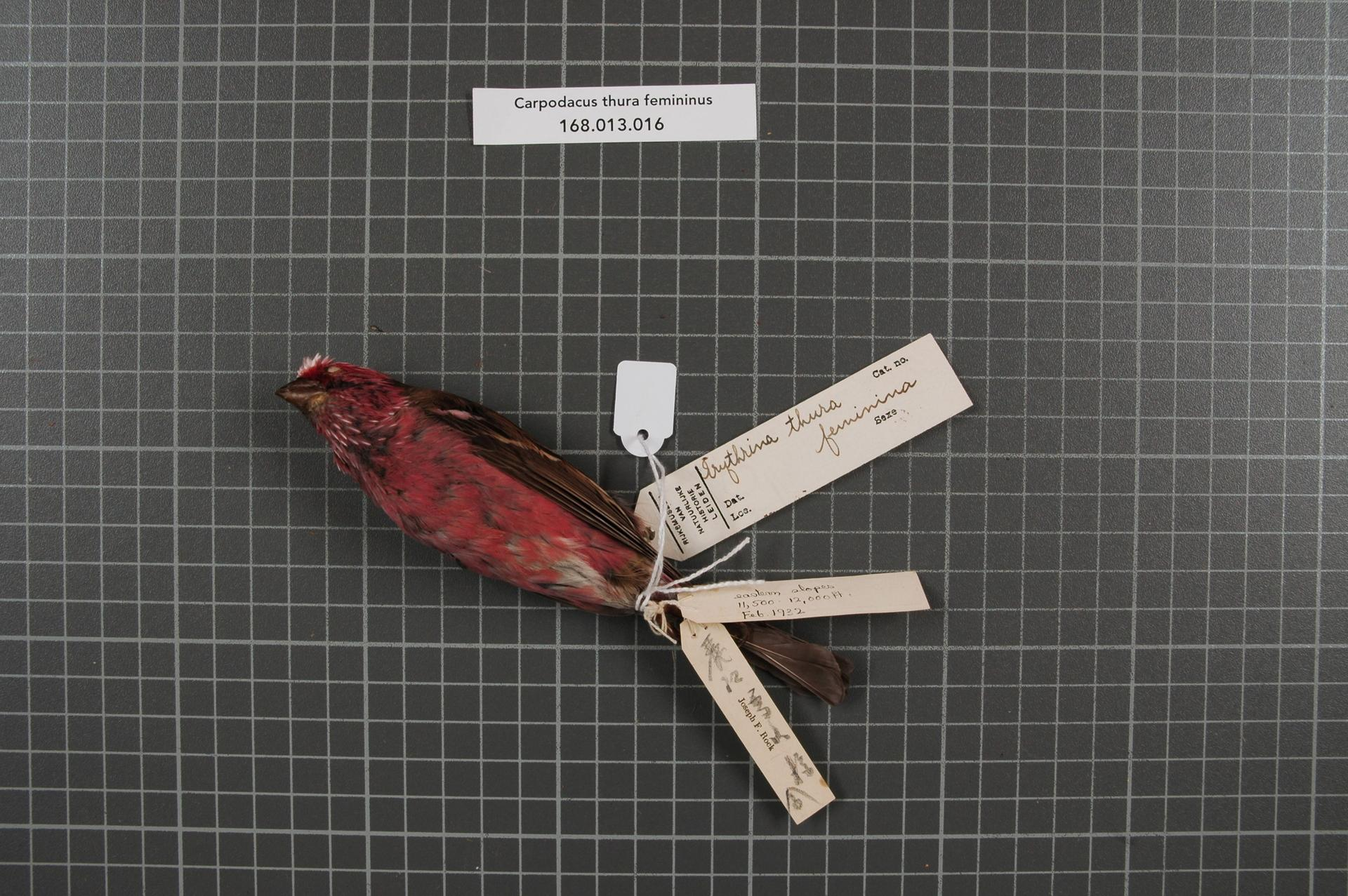 Carpodacus thura femininus Rippon, 1906